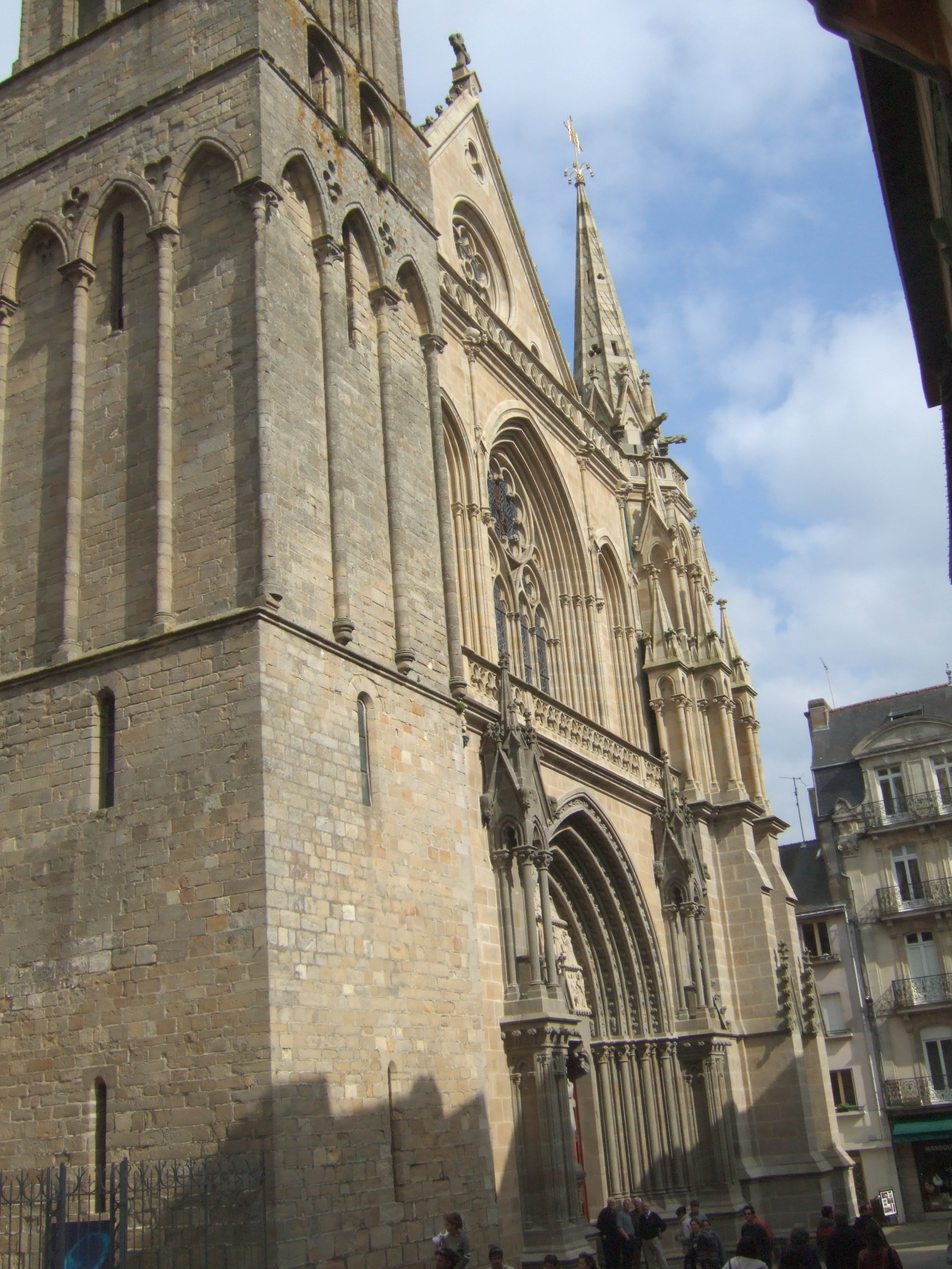 Front of the cathedral in Vannes By me.